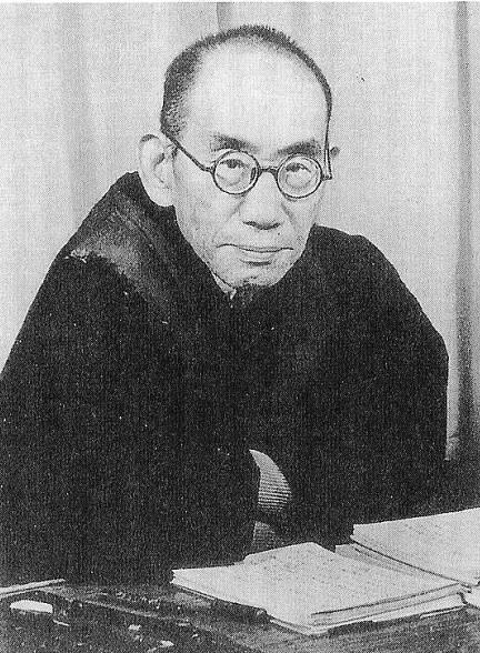 Photo of Kitaro Nishidain in Feb. 1943.